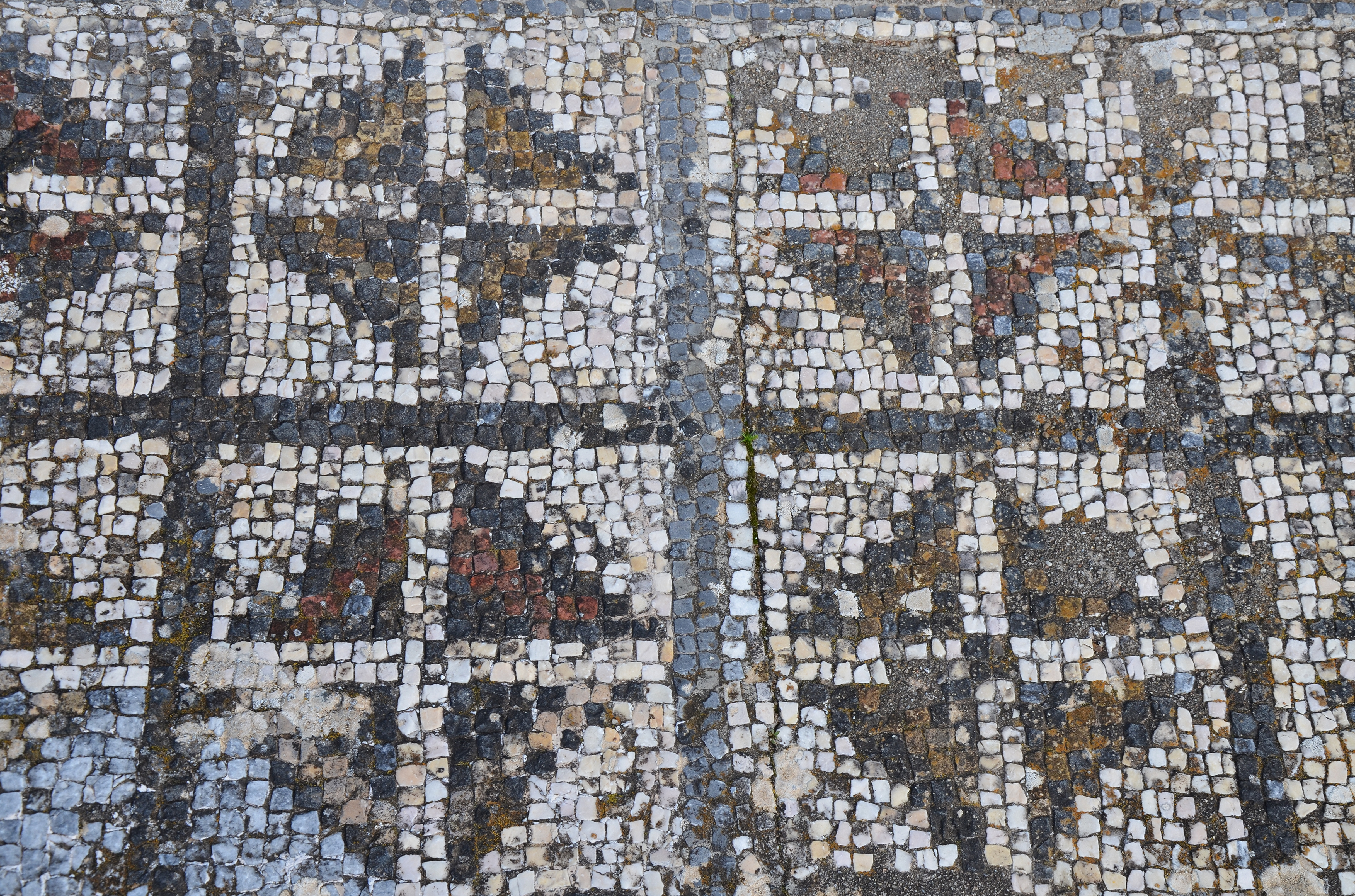 Mosaic floor with geometric motifs, Roman Villa of Pisões, Lusitania, Portugal